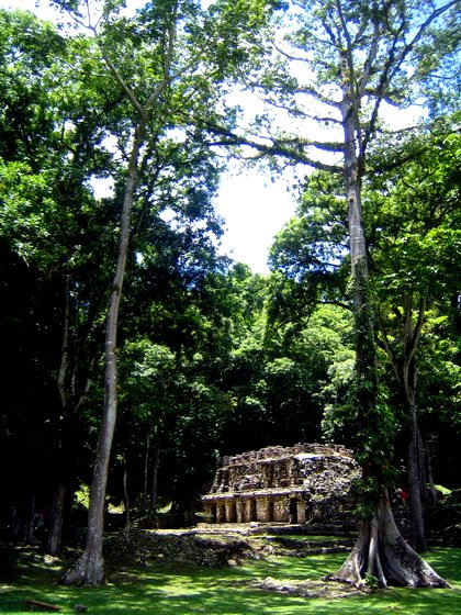 Jungle-shrouded Yaxchilan has a terrific setting above a horseshoe loop in the Usumacinta. The control this location gave it over river commerce, and a series of successful alliances and conquests, made Yaxchilan ibe if the most important Classic Maya cities in the Usumacinta region.